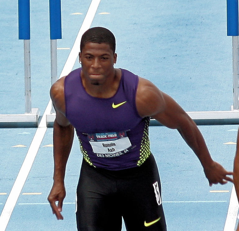 David Oliver winning the national title in the men's 110m hurdles.